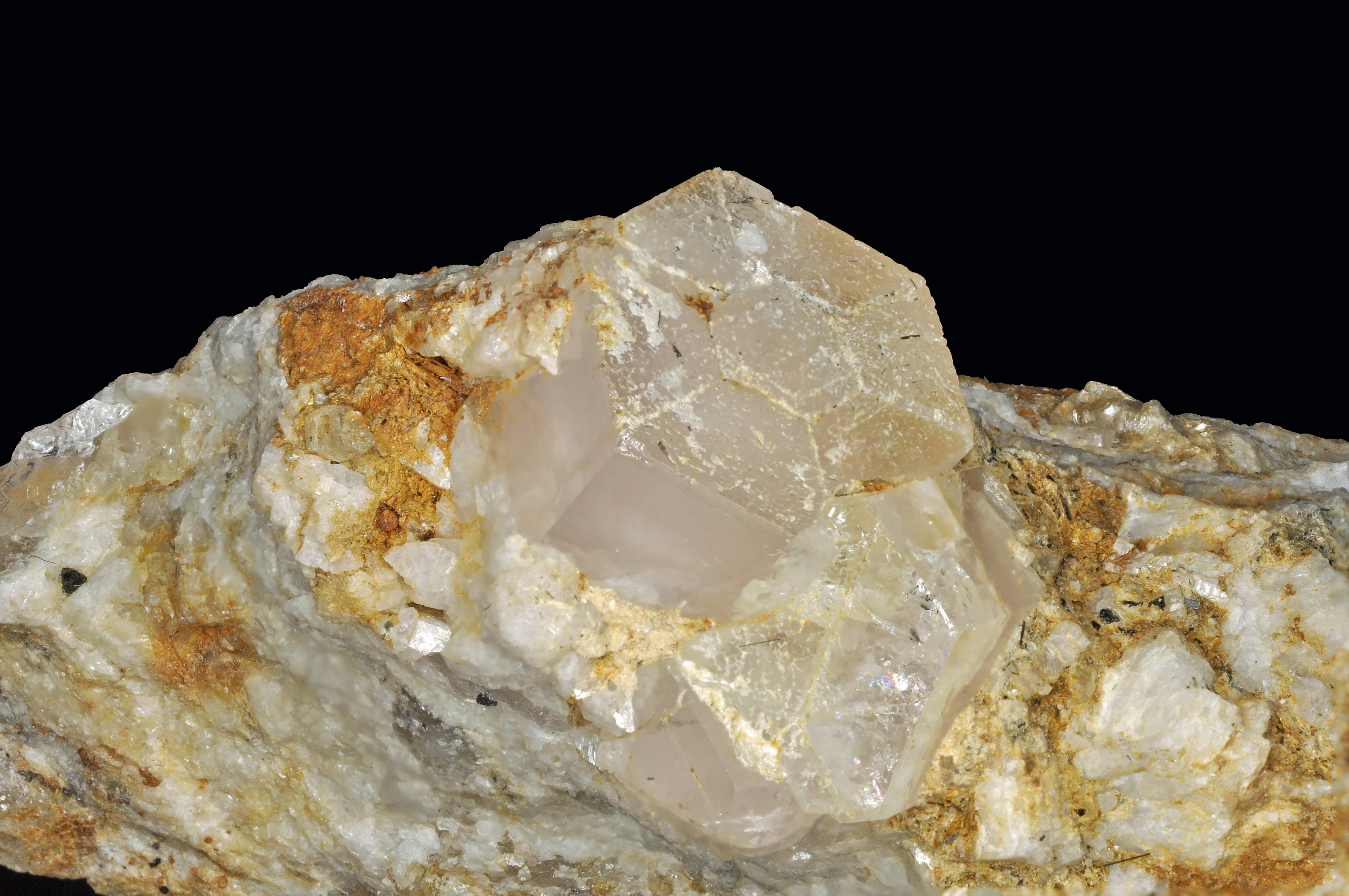 beryl var. morganite, tourmaline var. schorl : Chamachhu, Haramosh Mounts, Skardu District, Baltistan, Gilgit-Baltistan (Northern Areas), Pakistan